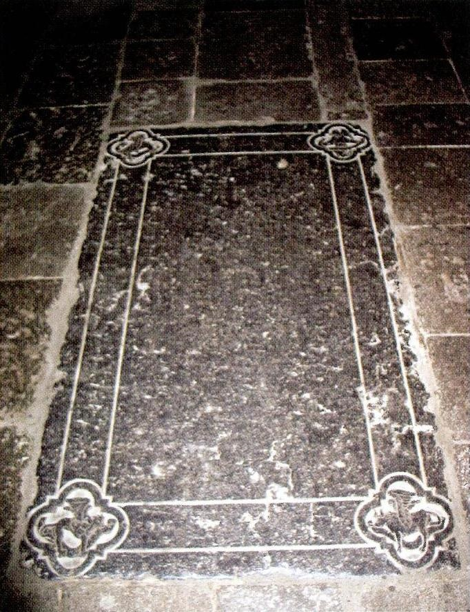 Tumba de Cristobal García del Castillo en Telde.